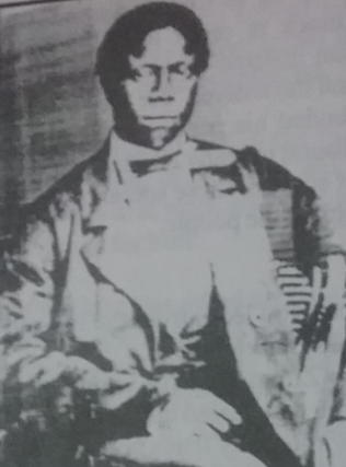 An old nineteenth century photo of the Akan native missionary, David Asante. The identity of the photographer is unknown.